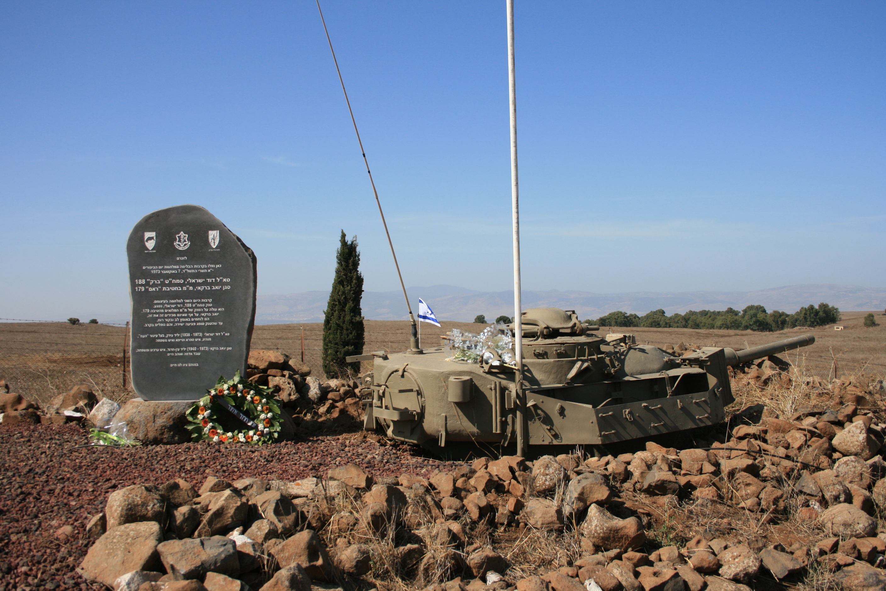 A Memorial for the Barak brigade second in command, who was killed during fighting in the Yom Kippur War.